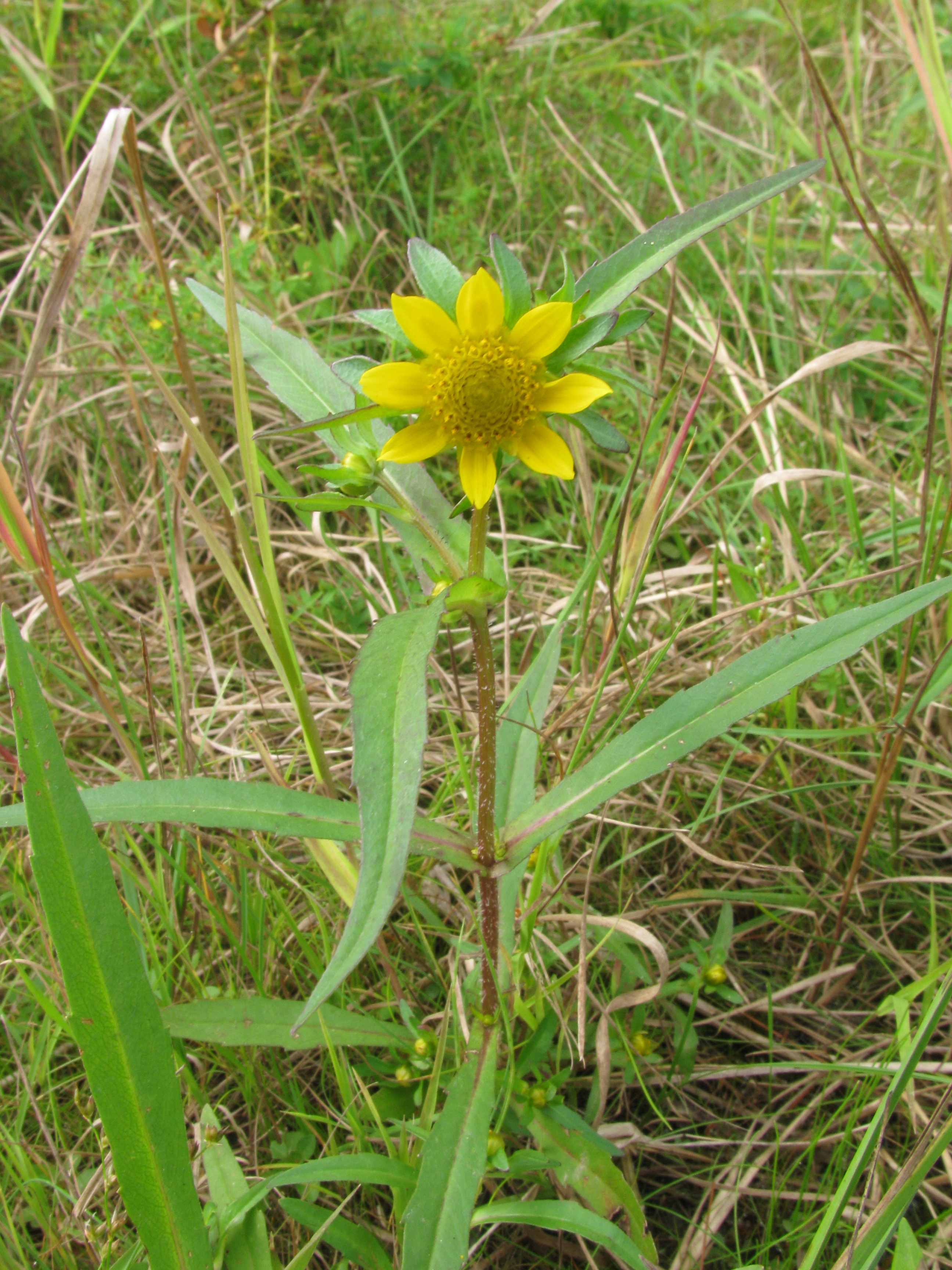 Photo showing the habit of a Bur Marigold (Bidens cernua) in bloom.